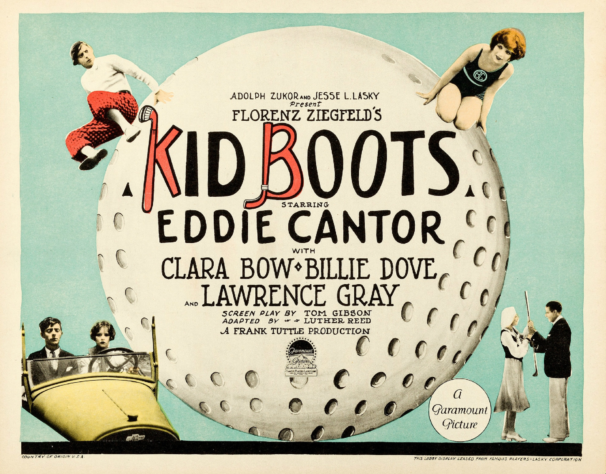 Poster for the American comedy film Kid Boots (1926). The item has no copyright markings on it as can be seen in the links above. At bottom left is Country of origin USA. At bottom right is This lobby display leased from Paramount Famous Lasky Corporation.